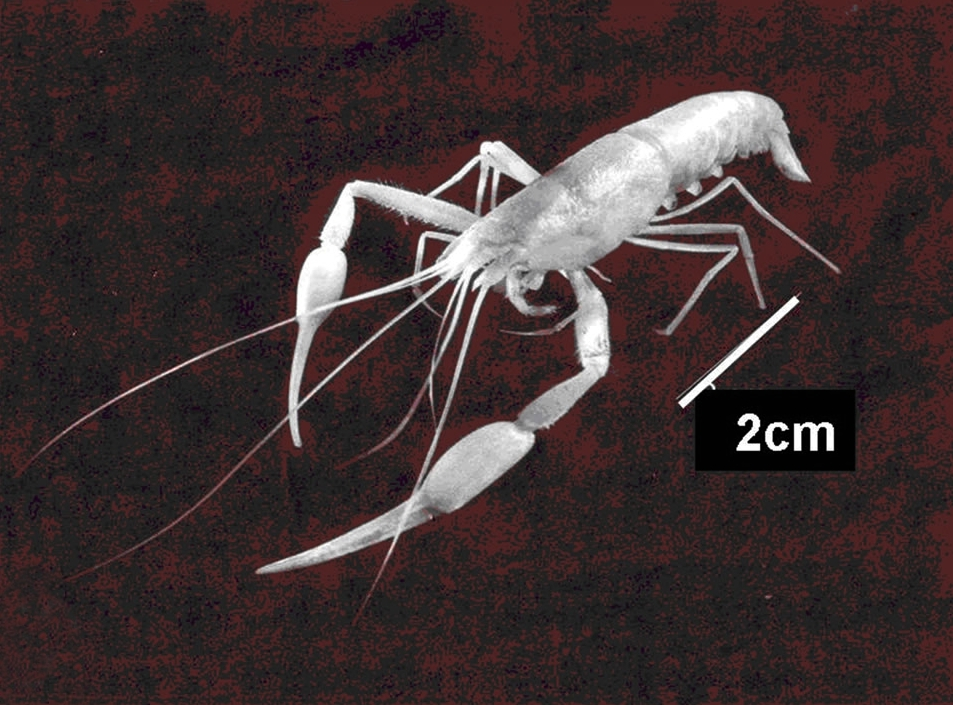 Invertebrates from Ayyalon Cave, Israel. Typhlocaris ayyaloni (Photo D. Darom)